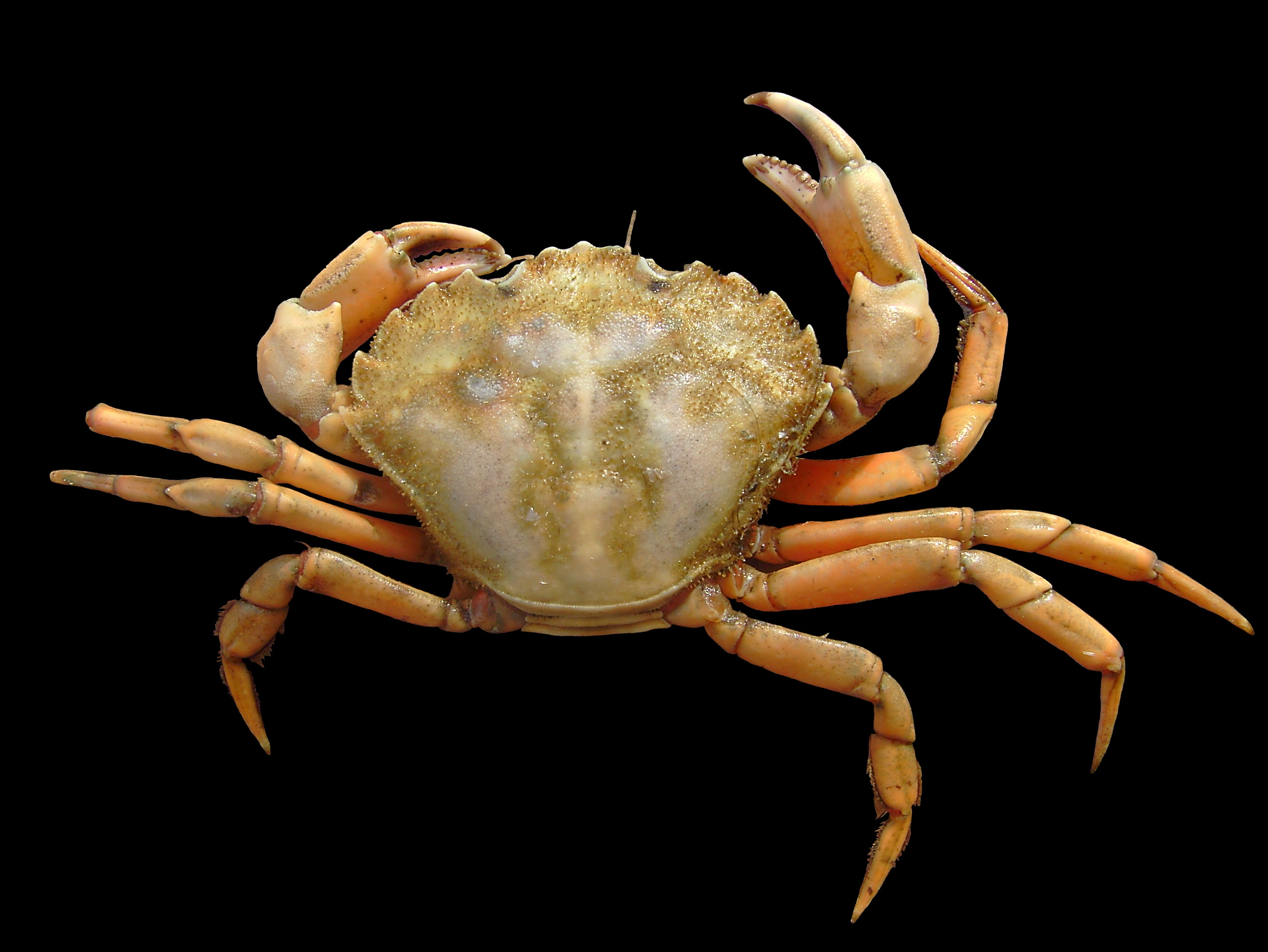 Common shore crab from the Belgian coastal waters (Westdiep) on board of RV Belgica.Carapace width: 6.2 cmLab image.